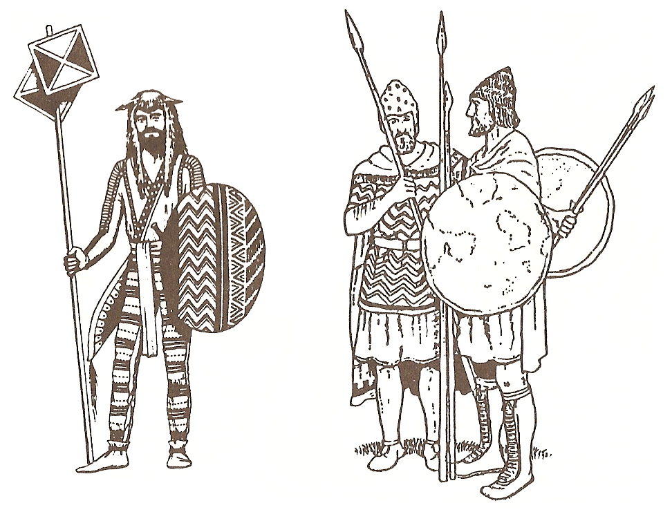 Original description: Soliers of Xerxes army. Reconstruction based on Herodot's descriptions, archaeological findings and images on greek vases. From left to right: Persian flag-bearer, Armenian soldier, Cappadocian soldier.